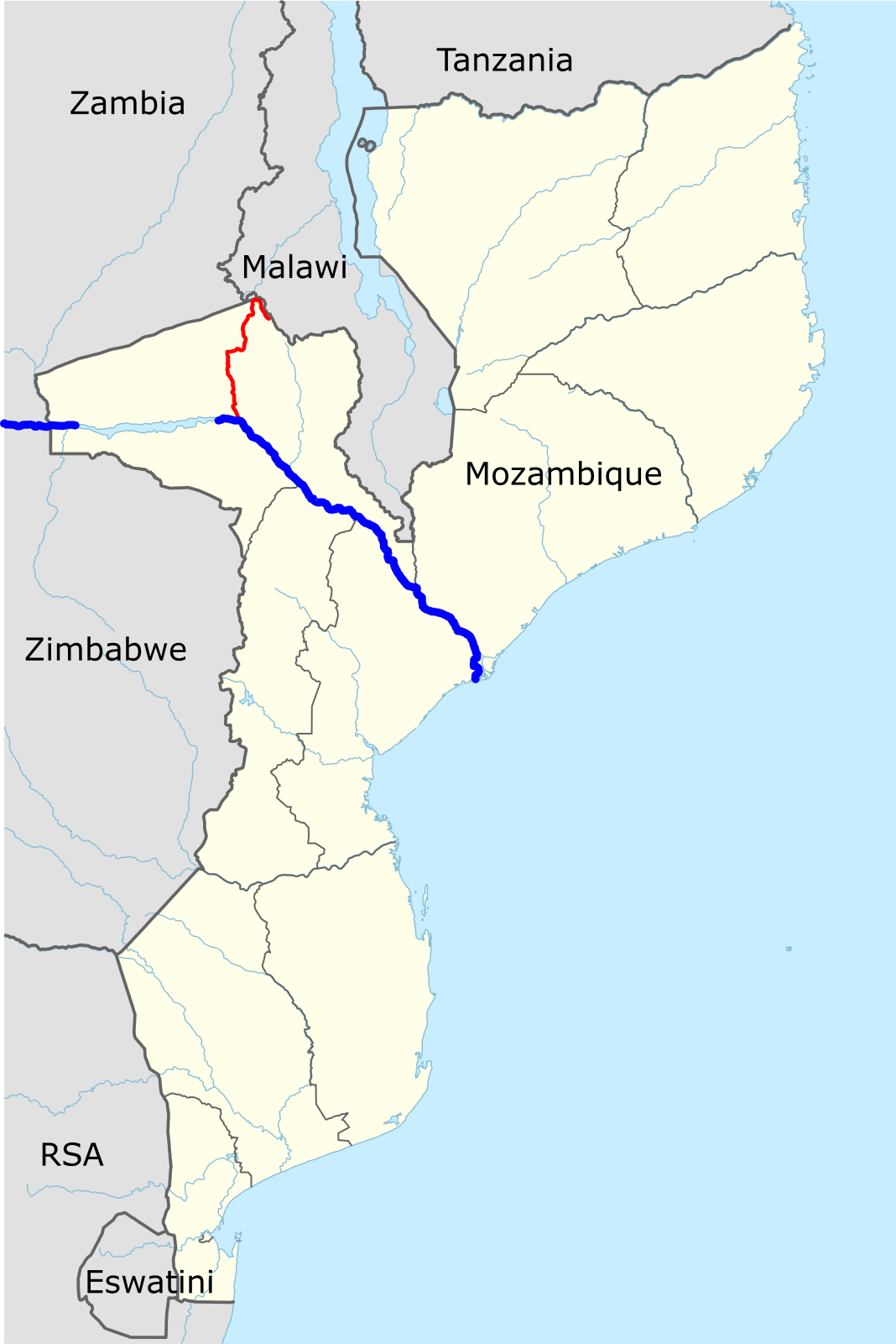 Hunyani River course in Zimbabwe. Zambezi blue, Luia red.